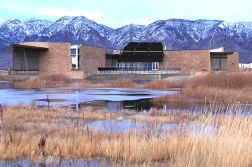 Obtained from Bear River Migratory Bird Refuge website (U.S. Fish & Wildlife Service) [1]